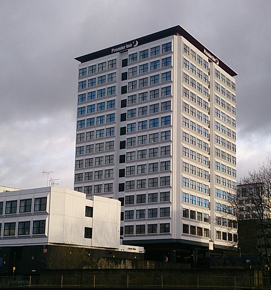 The Charing Cross Complex (Elmbank Gardens), Charing Cross, Glasgow, Scotland. Richard Seifert Co Partnership 1969-75